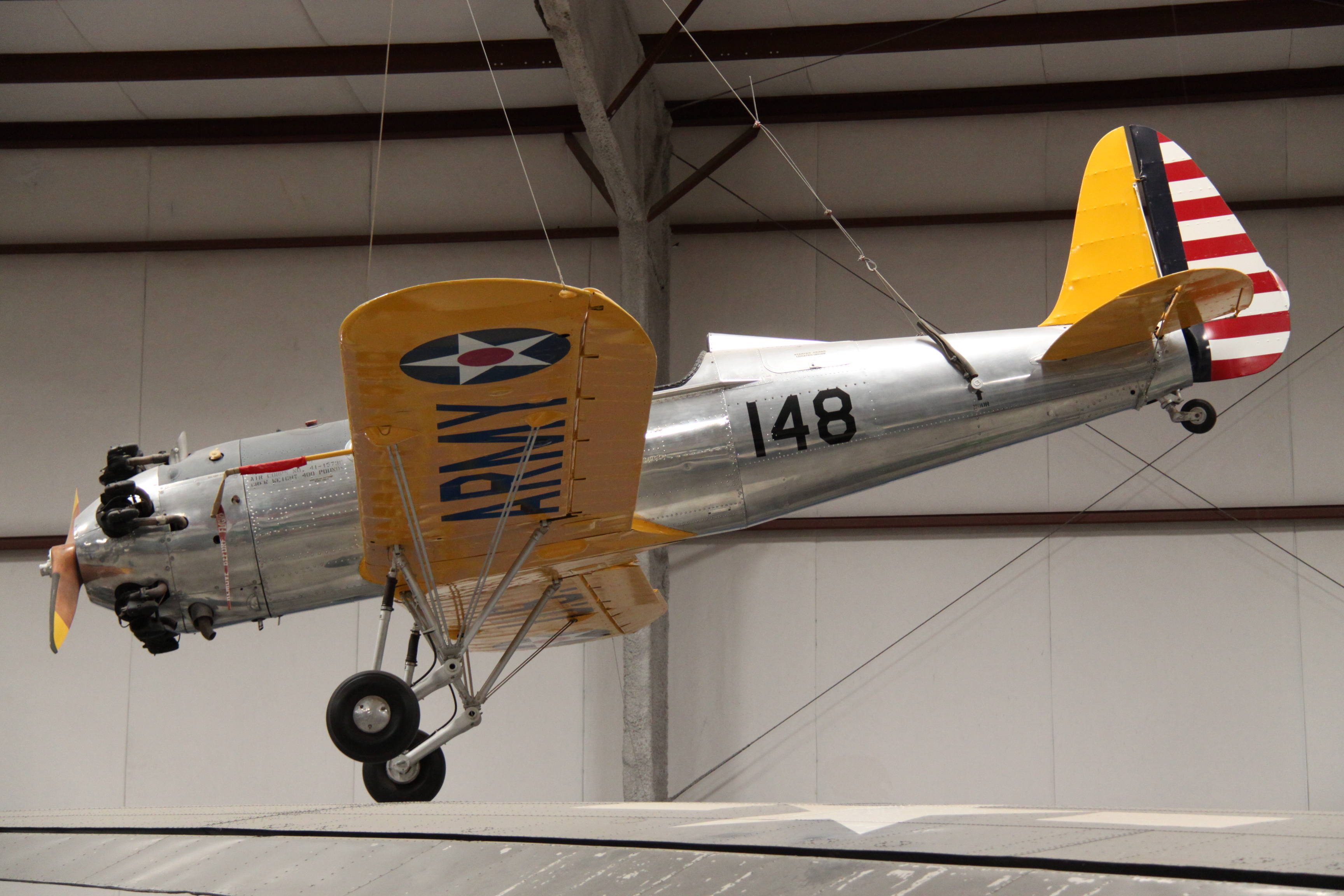 At Pima Air & Space Museum